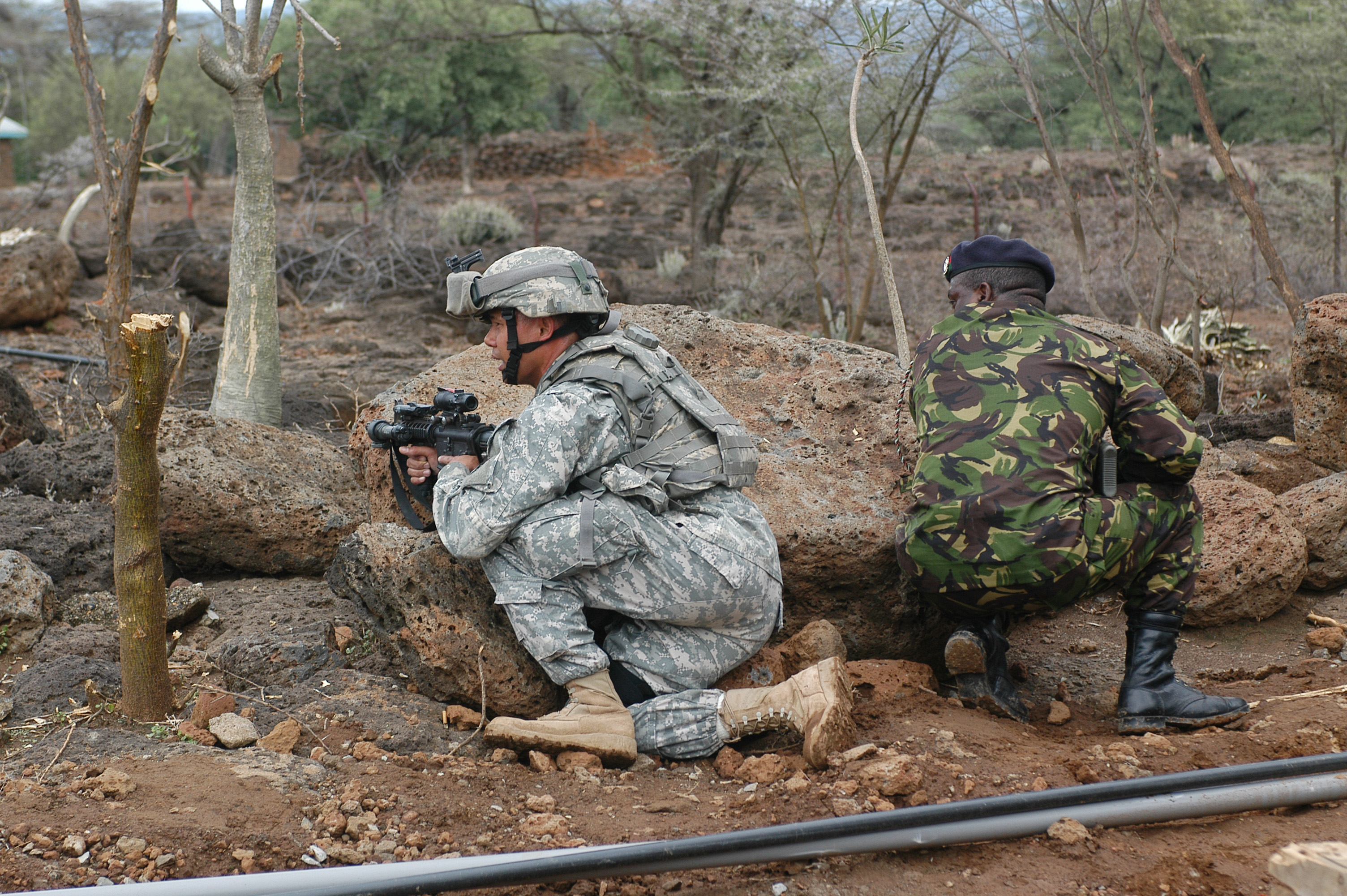 Nginyang, Kenya (Aug. 6, 2006) - Guam Army National Guard Staff Sgt. Jay Antenocruz takes up a firing position with a Kenyan Army soldier at the perimeter of Natural Fire Headquarters as part of a mock attack drill designed to train camp personnel in movement techniques in the event of a mortar or small arms attack. Natural Fire is the largest combined exercise between Eastern African community nations and the United States. It will include medical, veterinary and engineering civic affairs programs in addition to military exercises. U.S. Navy photo by Mass Communication Specialist 2nd Class Roger S. Duncan (RELEASED)